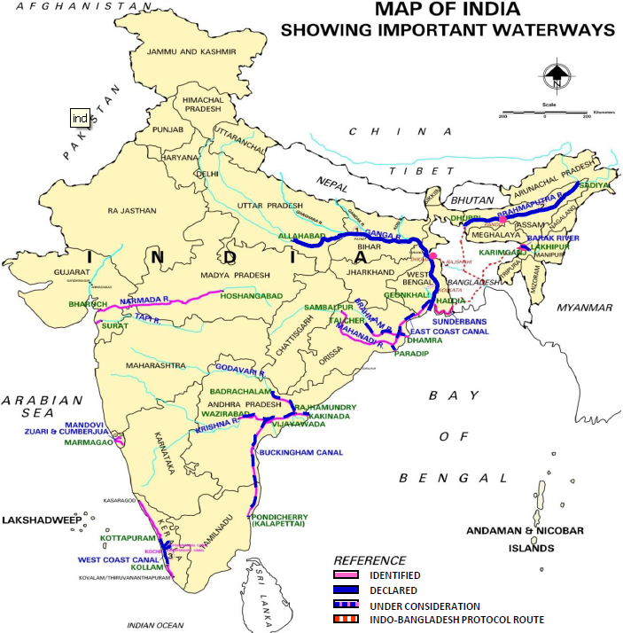 Map Indicating India's Six National Waterways